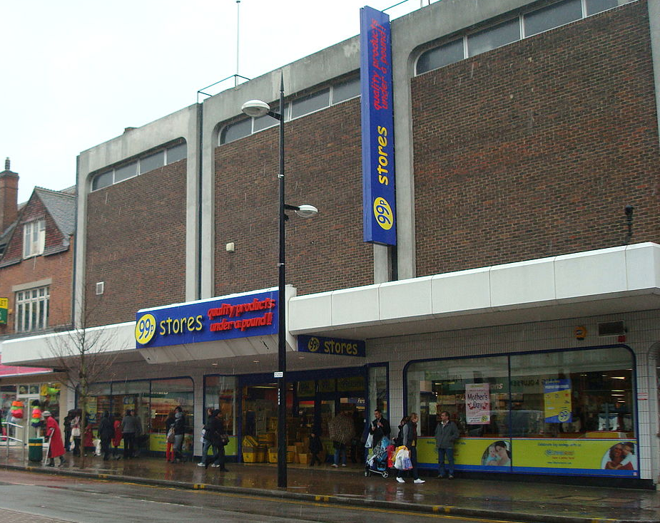 Description